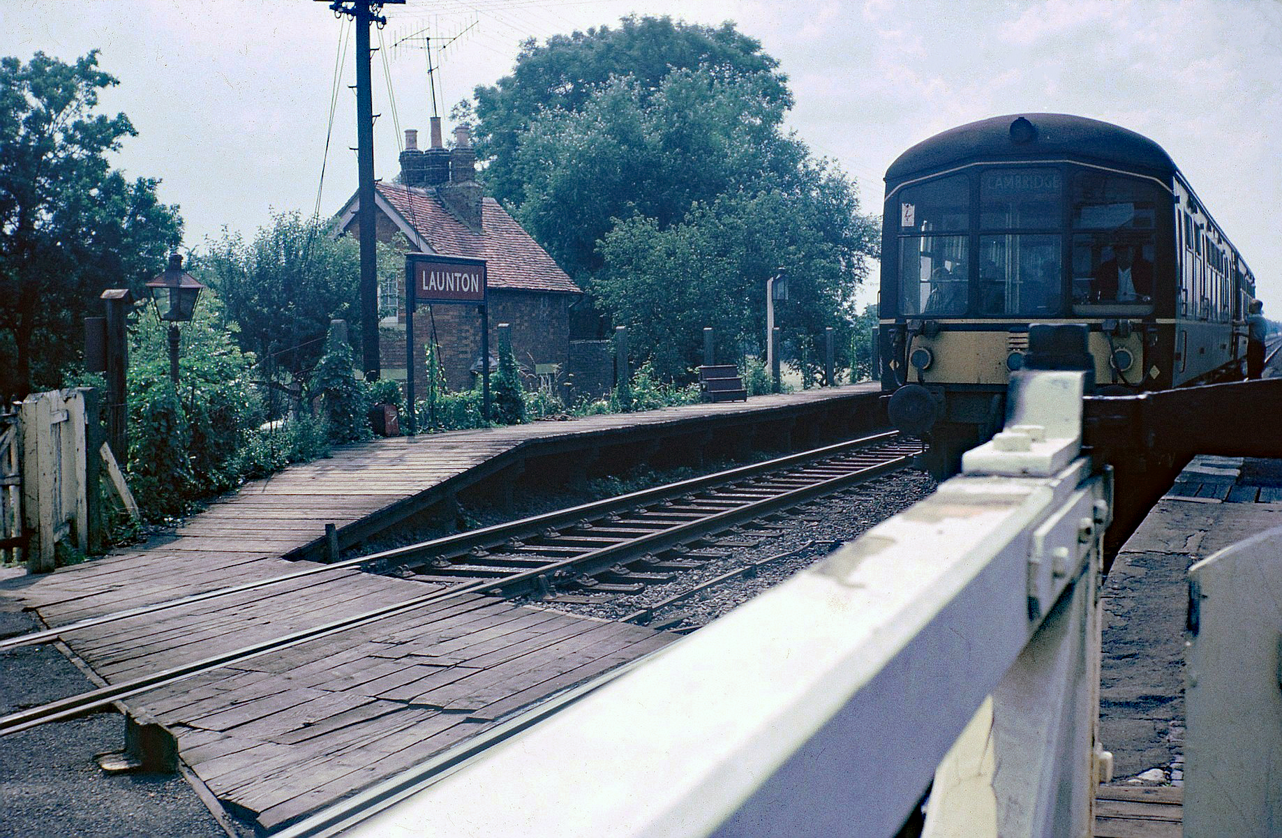 DMU leaves Launton station.